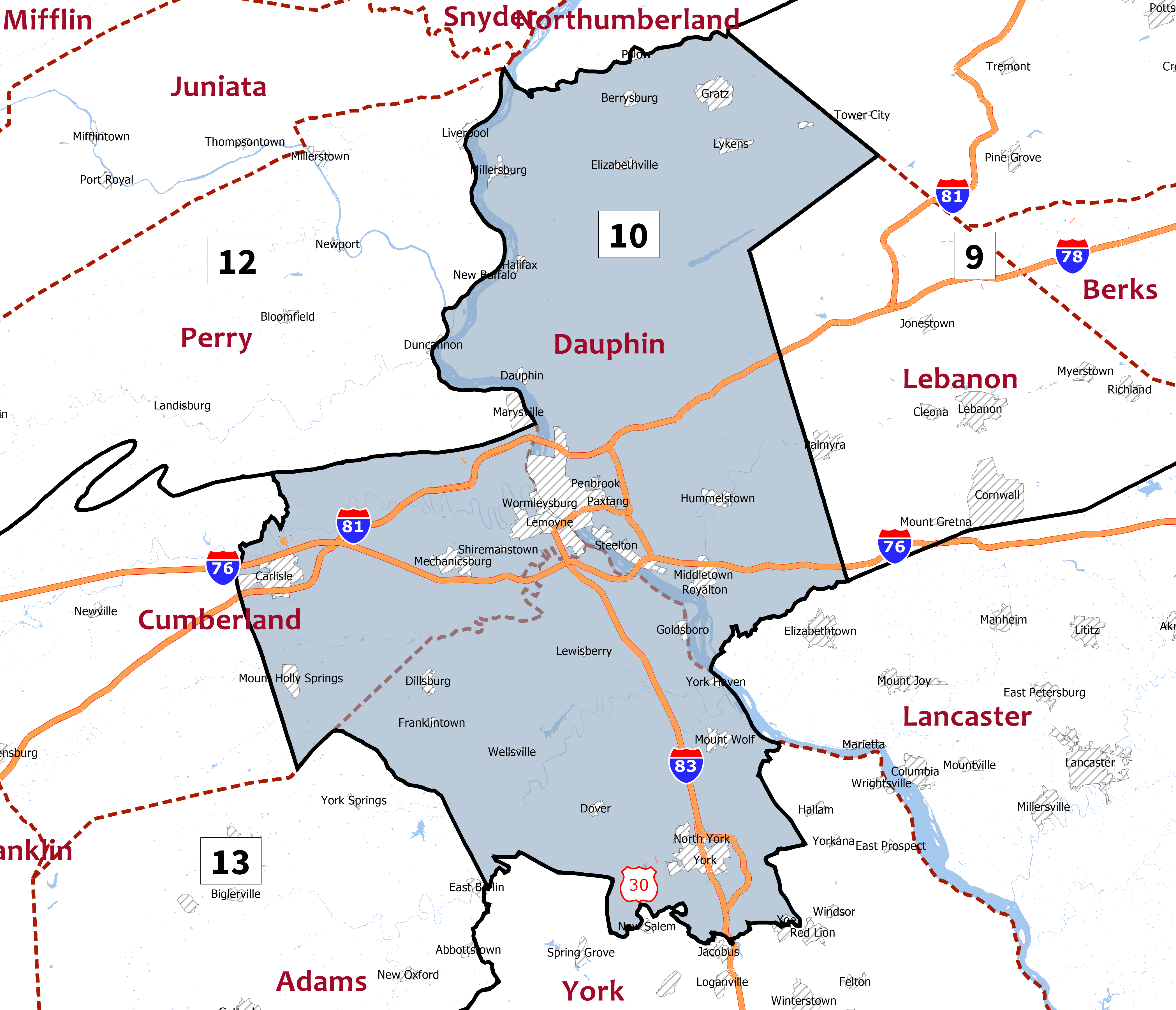 Pennsylvania congressional district 10